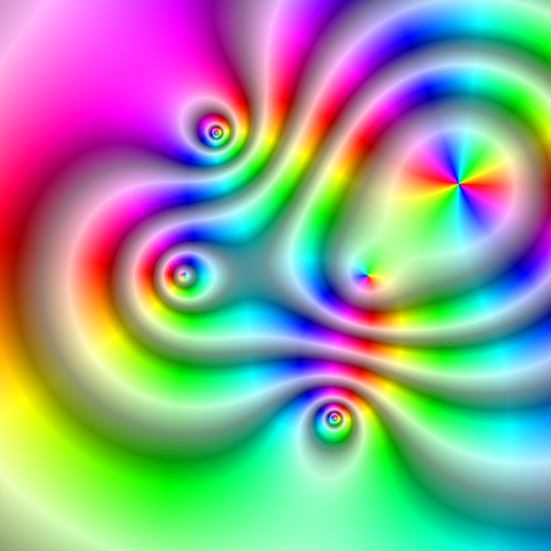 Colour plot of complex function (x² - 1) * (x-2-I)² / (x² + 2 + 2I), hue represents the argument, sat and value represents the modulo. Contours distinguish intervals [e^i, e^(i+1)] where i=0,1,2... Shadow is on the higher modulus side. Zeros have pin-wheel of colours, one cycle of the colour wheel for simple zero, two cycles for double zero etc. Contours are approaching poles with the shadowed side, and the colours cycle in reverse order around a pole.